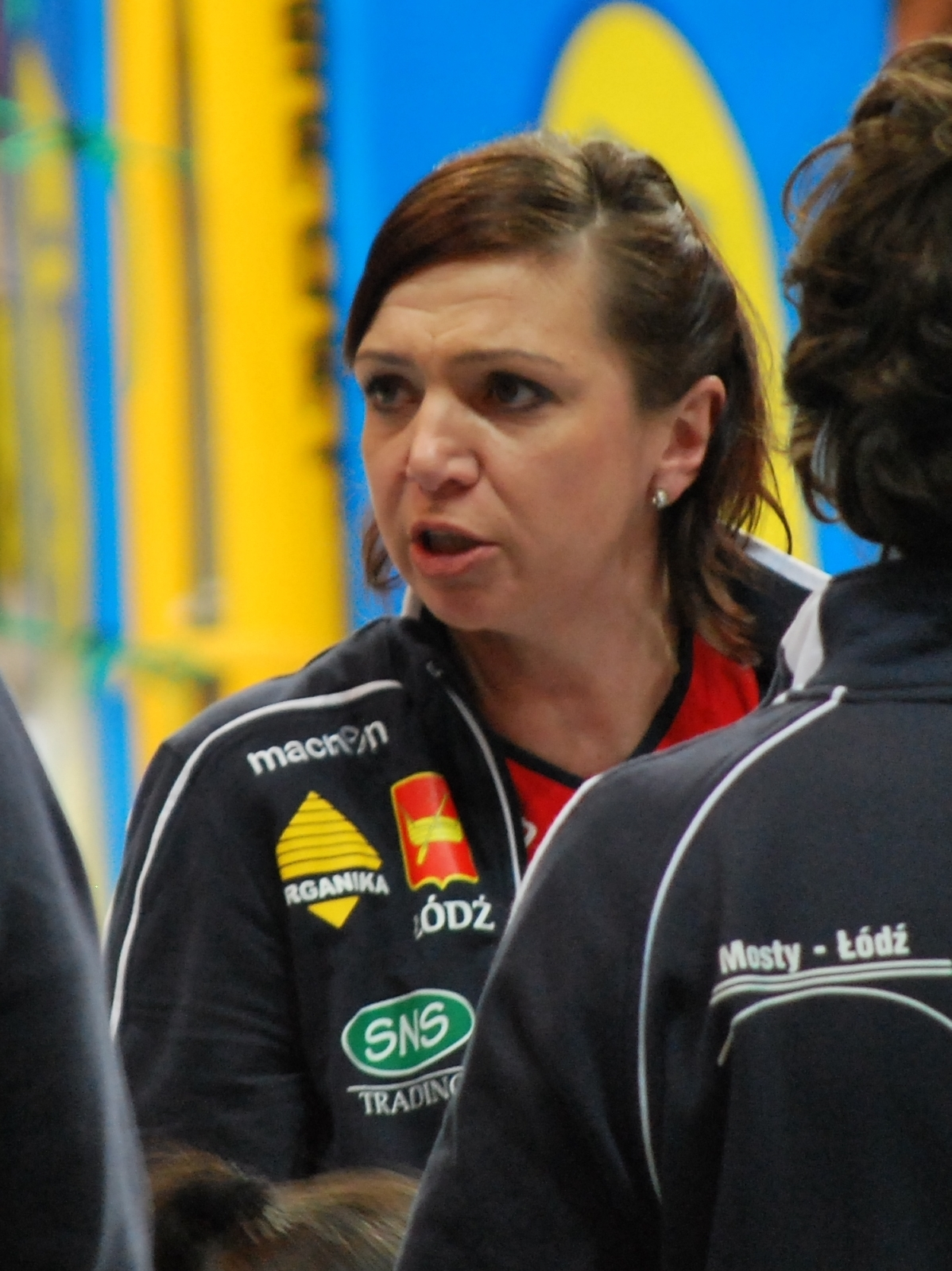 Małgorzata Niemczyk, polish volleyball coach, former player